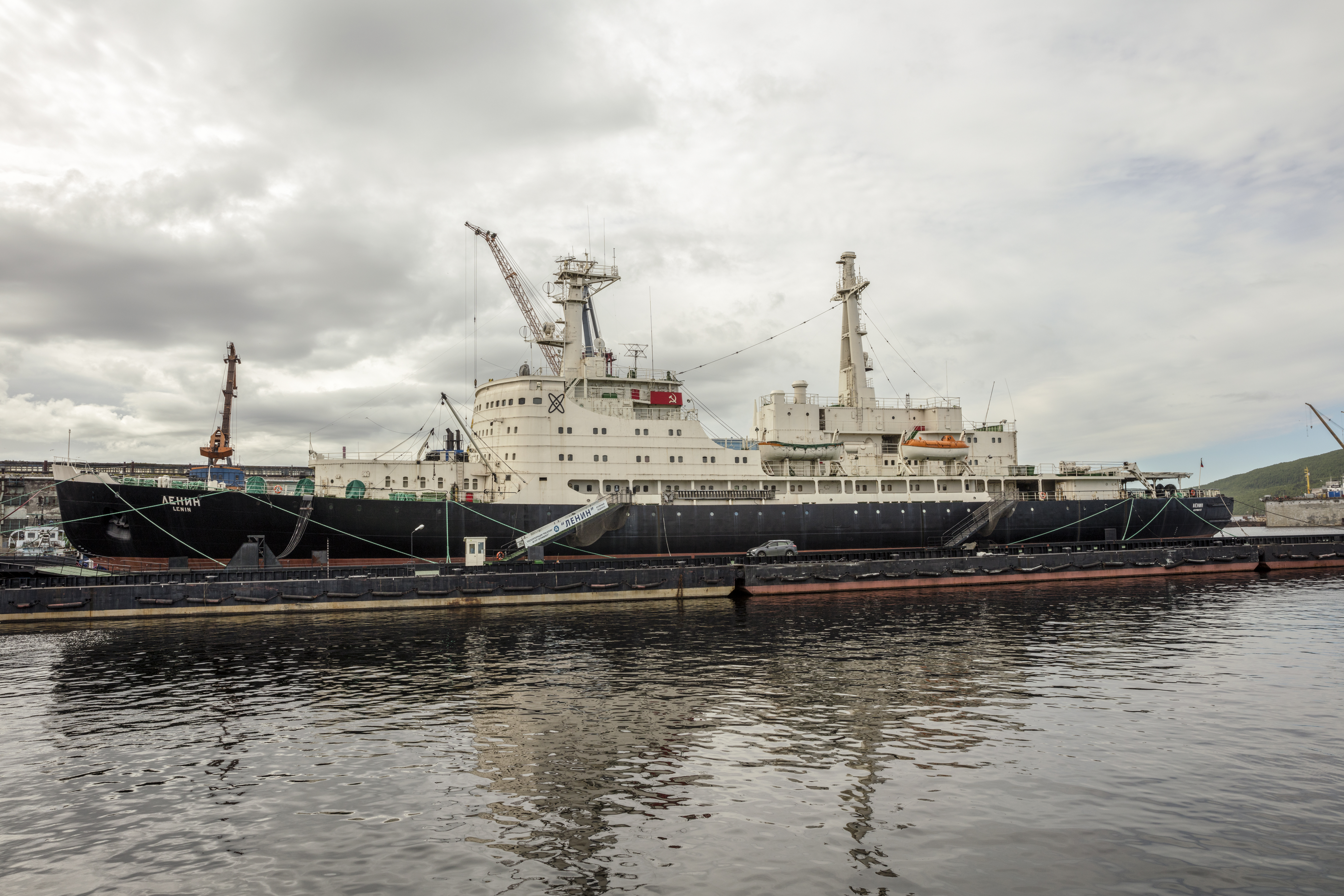 The Lenin, commissioned in 1957, was the world's first nuclear-powered civilian vessel. Decommissioned in 1989, the ship is now a museum anchored in Murmansk.